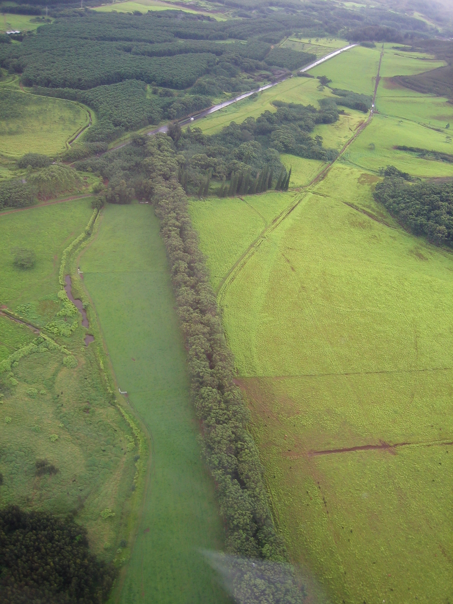 Aerial view of tree tunnel on Hawaii Route 520, Kaua'i